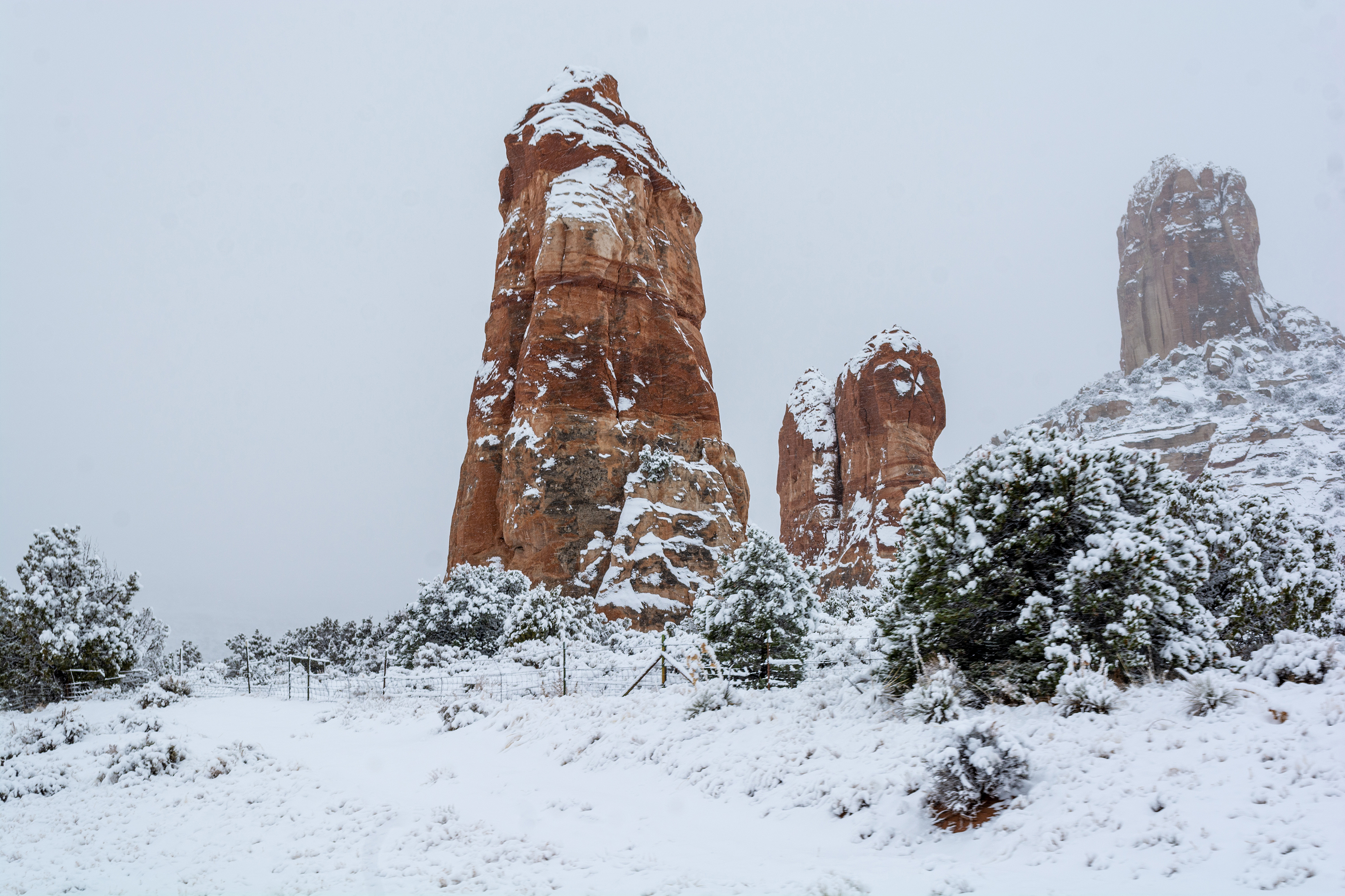 The Valley of the Gods is a scenic sandstone valley near Mexican Hat in San Juan County, southeastern Utah, United States. Formerly part of Bears Ears National Monument, Valley of the Gods is located north of Monument Valley across the San Juan River and has rock formations similar to those in Monument Valley with tall, reddish brown mesas, buttes, towers and mushroom rocks—remnants of an ancient landscape. The Valley of the Gods may be toured via a 17-mile (27 km) gravel road (San Juan County Road 242) that winds around the formations. The road is rather steep and bumpy in parts but is passable by non-four-wheel drive vehicles in dry weather. The western end joins Utah State Route 261 shortly before its 1,200-foot (370 m) ascent up Cedar Mesa at Moki Dugway, while the eastern end starts nine miles (14 km) from the town of Mexican Hat along U.S. Route 163 and heads north, initially crossing flat, open land and following the course of Lime Creek, a seasonal wash, before turning west toward the buttes and pinnacles. In addition to the gravel road, the area is also crisscrossed by off-road dirt trails. The valley has been used as the backdrop for western movies, commercials and television shows including two episodes of the BBC science fiction show Doctor Who: "The Impossible Astronaut" and "Day of the Moon", the second of which includes an explicit on-screen reference to the filming location. The 1984-1987 CBS TV show Airwolf is often mistakenly identified as being filmed in Valley of the Gods due to an in-episode mention but was filmed in Monument Valley Source: Wikipedia